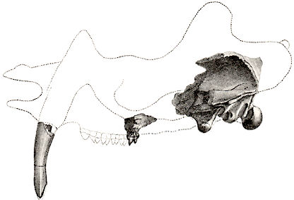 Part of Plate XXVIII from "The Extinct Fauna of the Western Territories", by Joseph Leidy.